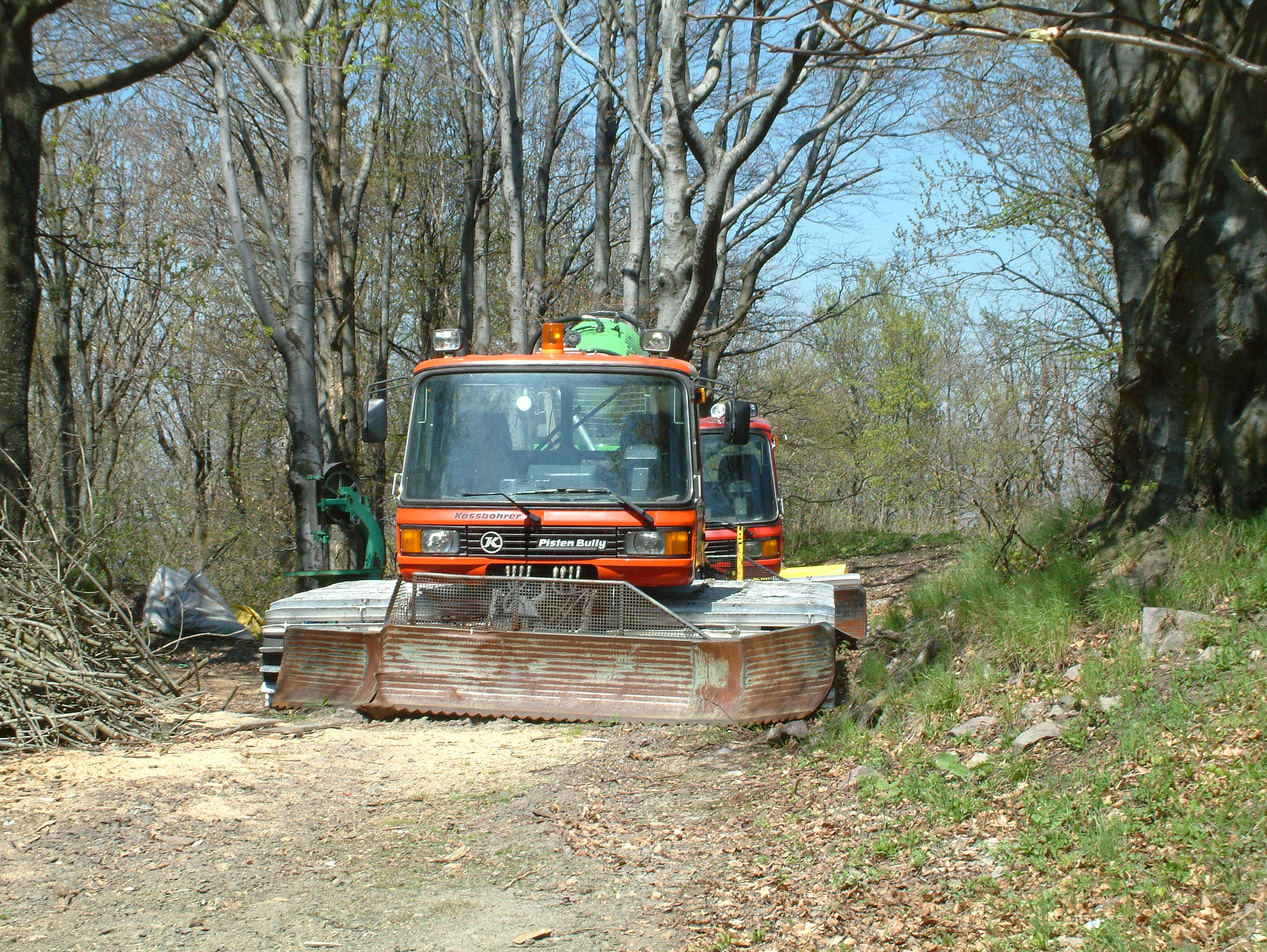 Ratracs at Nagy-Hideg-hegy